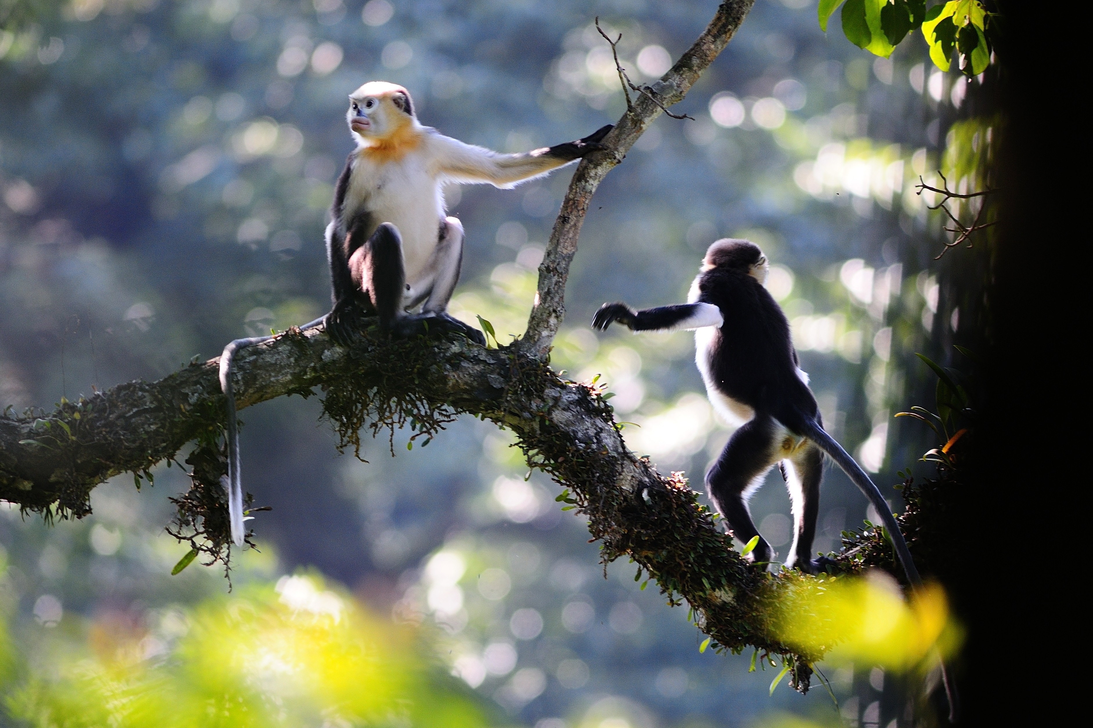 Two Tokin snub-nosed monkeys (Rhinopithecus avunculus) in northeastern Vietnam.